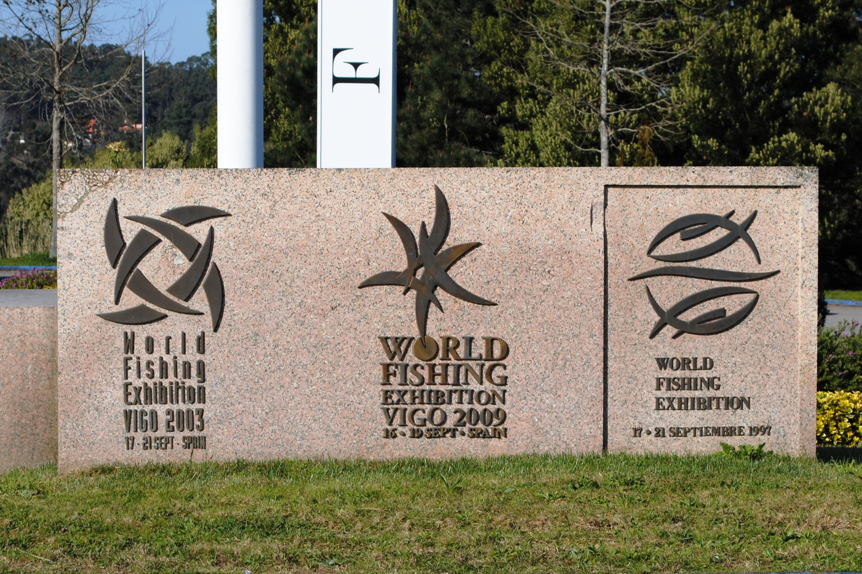 See title.